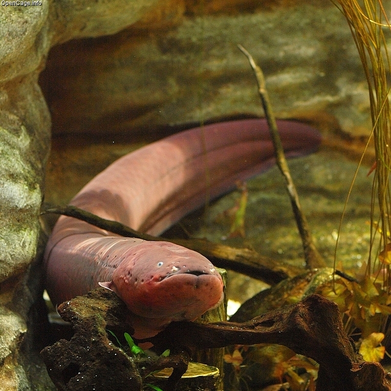 Electric eel Electrophorus electricus